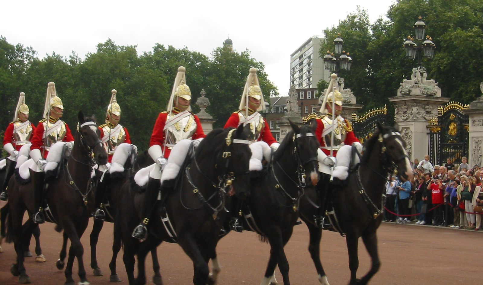 Household Cavalry, Buckingham Palace